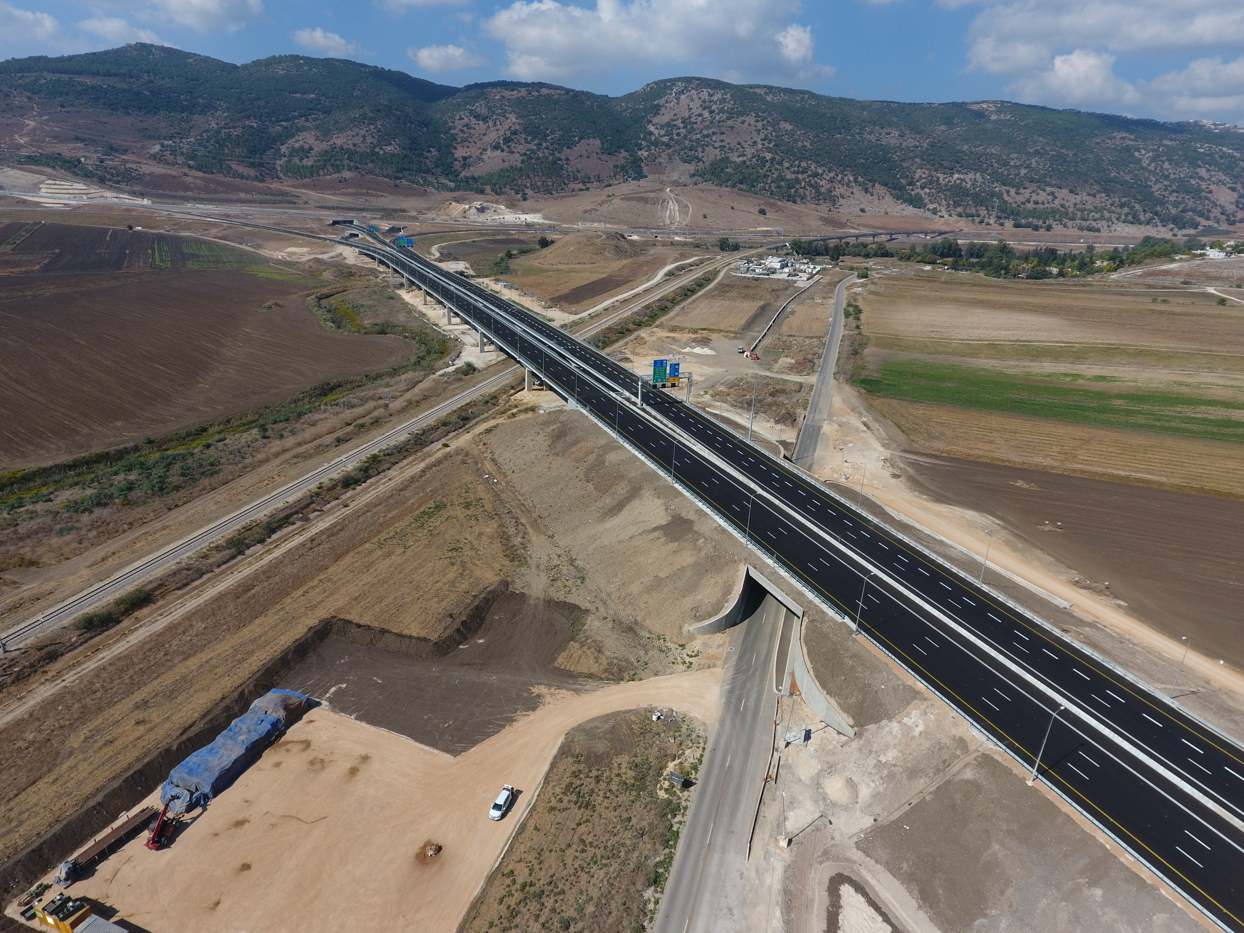 Viaduct over via 77. The viaduct cross the Jezreel Valley railway and the road to Elroe. Behind the viaduct is Tel Kashish and its interchange. Kiryat Haroshet i in the right side. Photo is taken by Gal Ben David